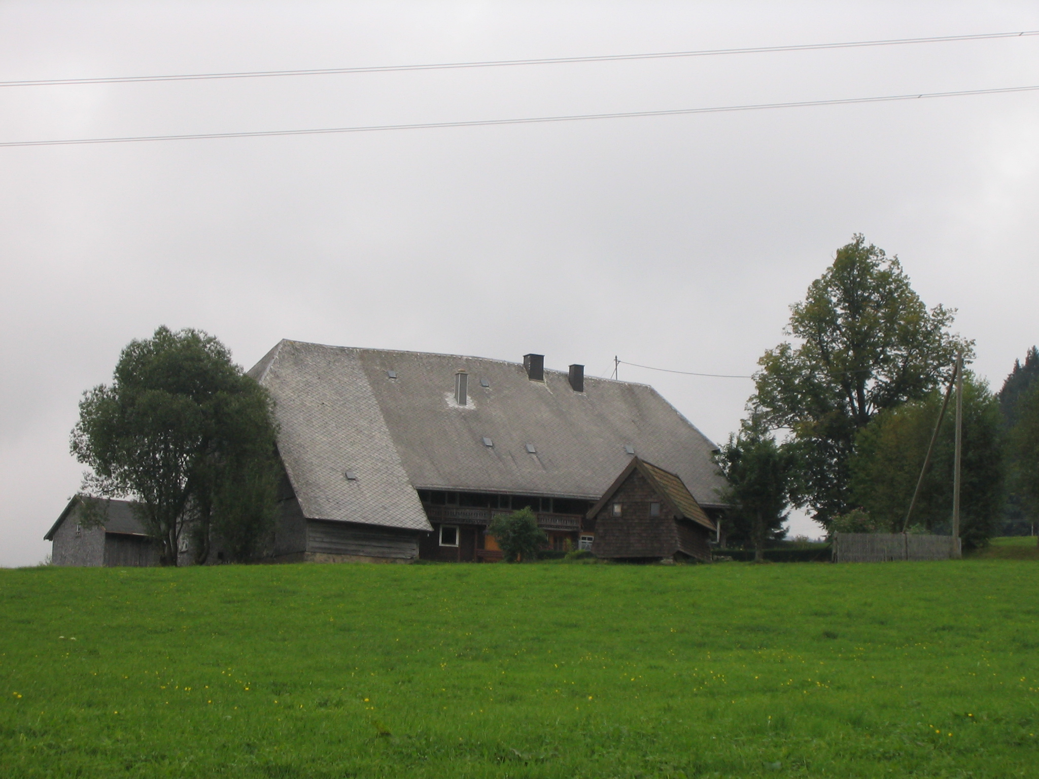 Farm near Breitnau, Germany